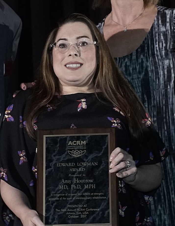 ACRM Award Winner: Amy Houtrow, MD, PhD, MPH, University of Pittsburgh; Edward Lowman Award 2017